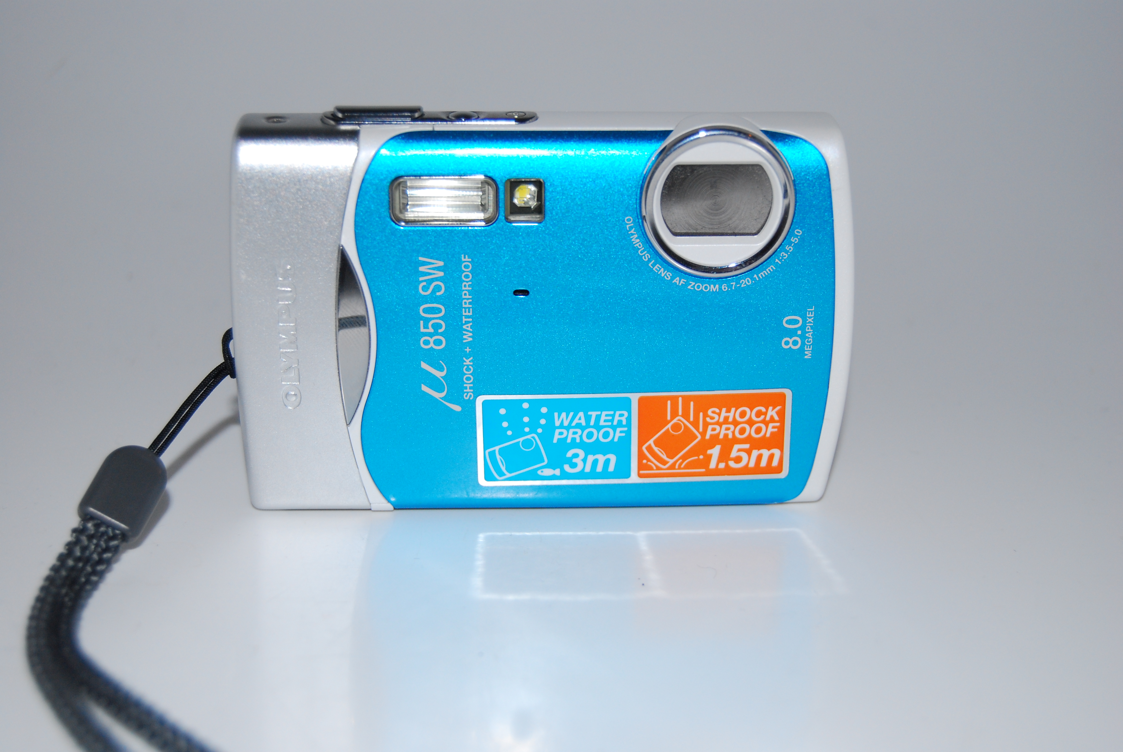 Olympus µ850SW digital camera